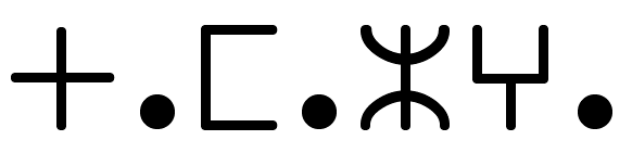 "TAMAZGHA" (the country of IMAZGHEN = Berbers) in IRCAM tifinagh (Berber script) Written by myself.